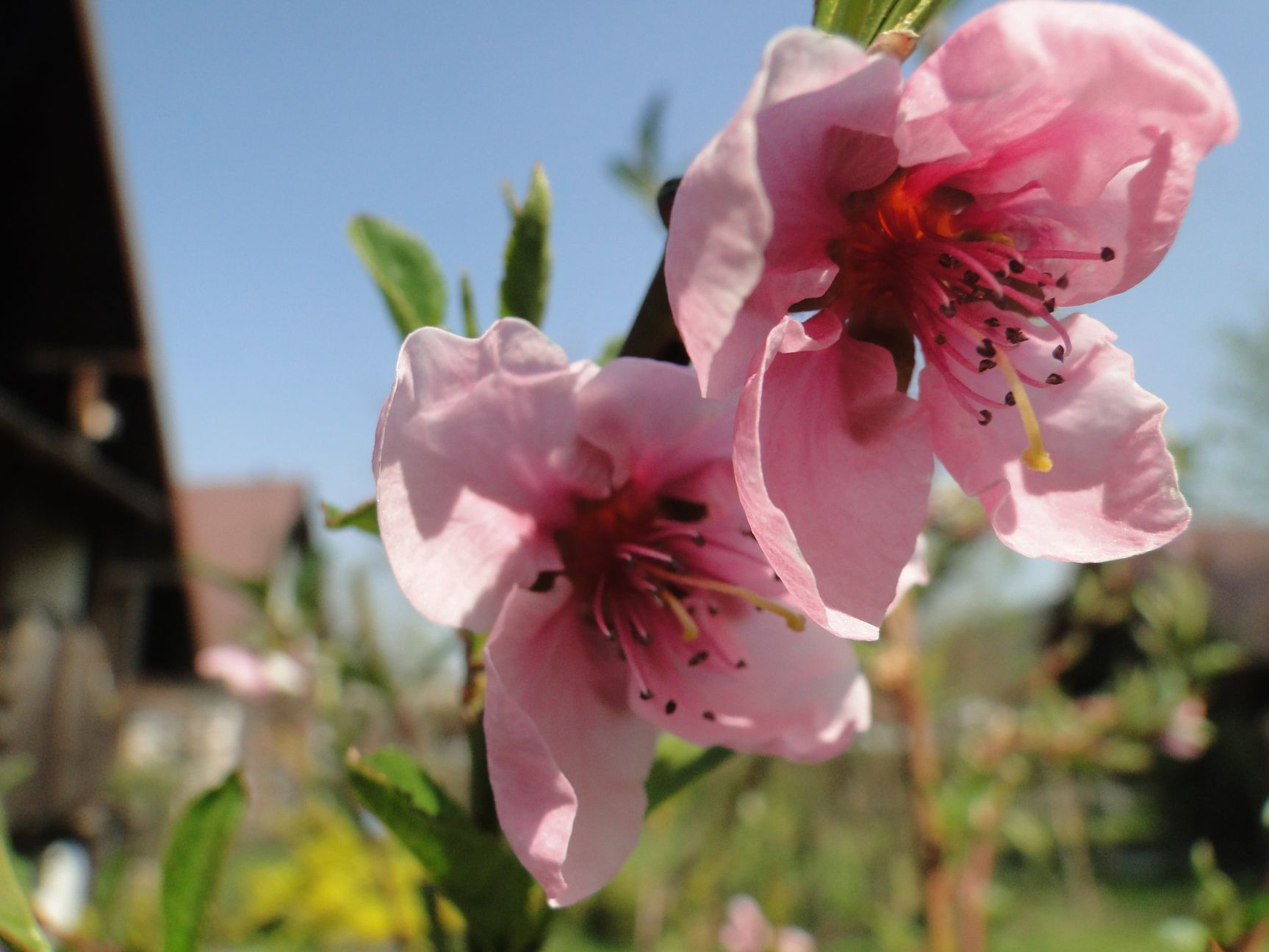 Flowers of nectarine